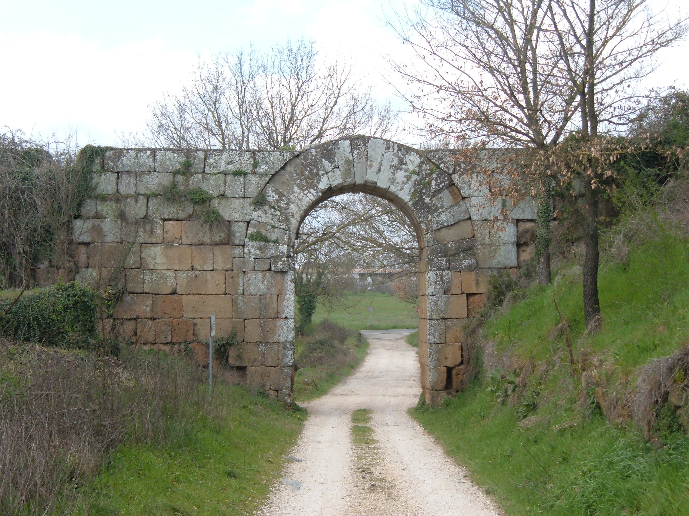 Porta di Giove a Falerii Novi, View from inside (from east) towards the street.